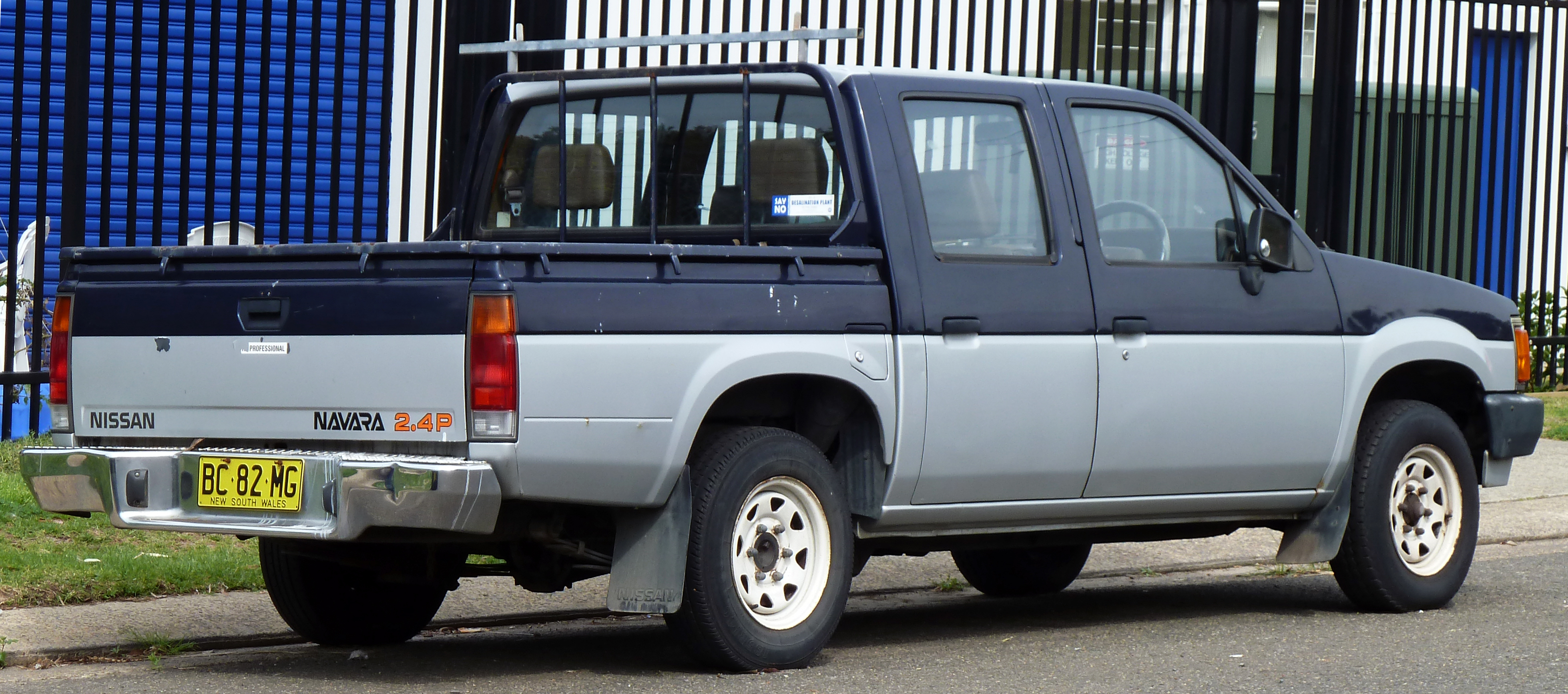 1989 Nissan Navara (D21) 4-door utility. Photographed in Caringbah, New South Wales, Australia.